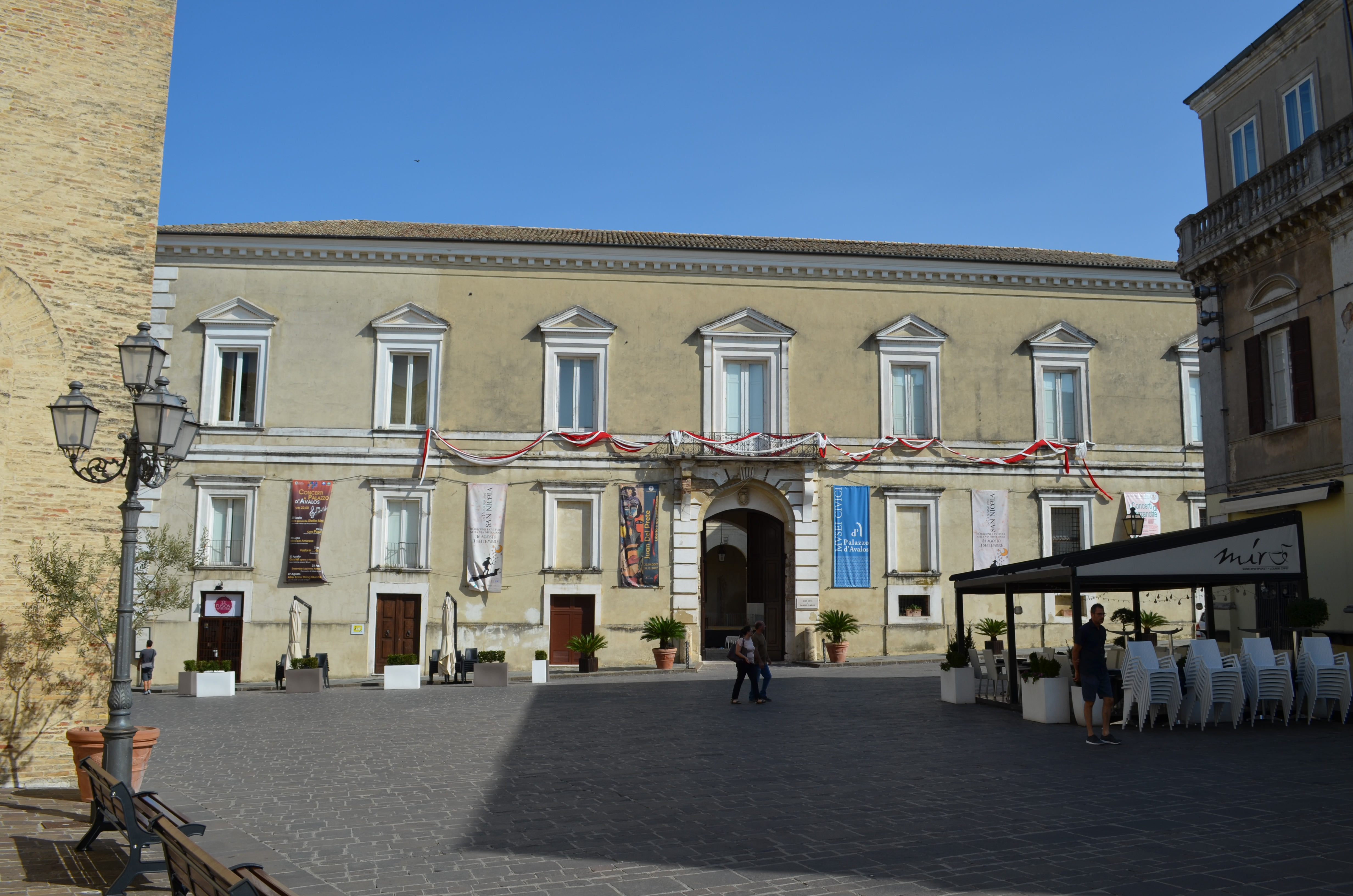 Front entrance of the Palazzo d'Avalos at Vasto, province of Chieti This is a photo of a monument which is part of cultural heritage of Italy.